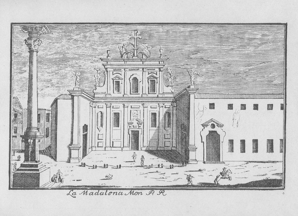 Marc'Antonio Dal Re (1697-1766), Monastero della Maddalena a Milano. This engraving is part of a set of 88 Vedute di Milano ("Views of Milan") published by Del Re around 1745.